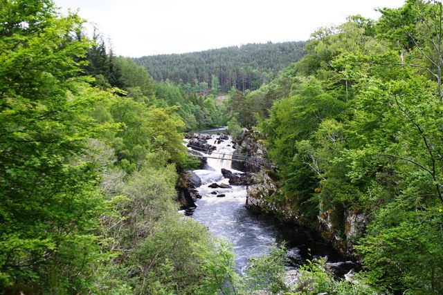 Rogie Falls The viewing bridge by Rogie Falls.